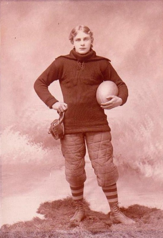 Image of John Brallier.